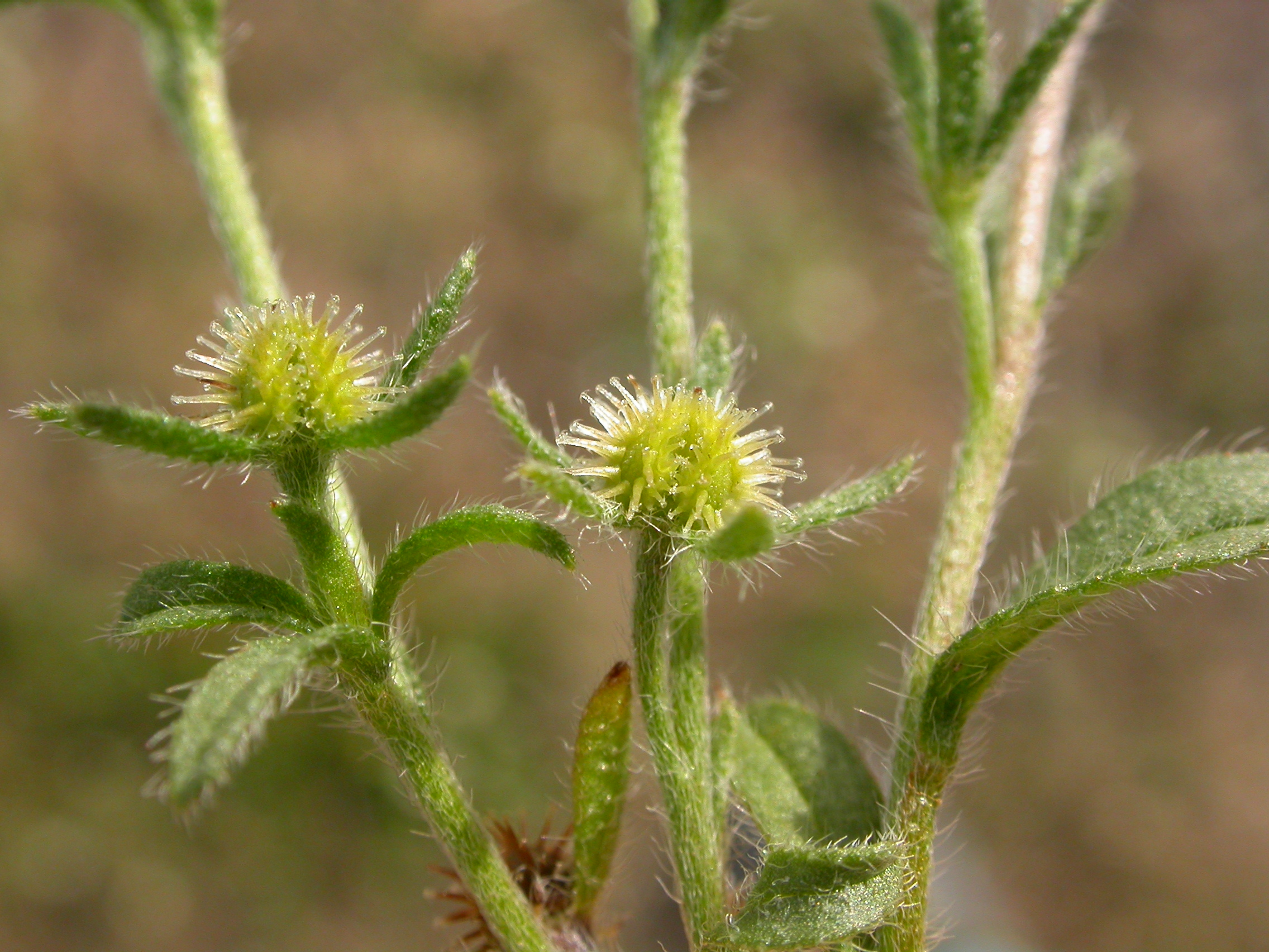 The margins of the outer surface of the nutlets are lined with two rows of barb-tipped spines.